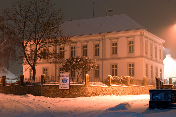 Municipal office in Čížkovice